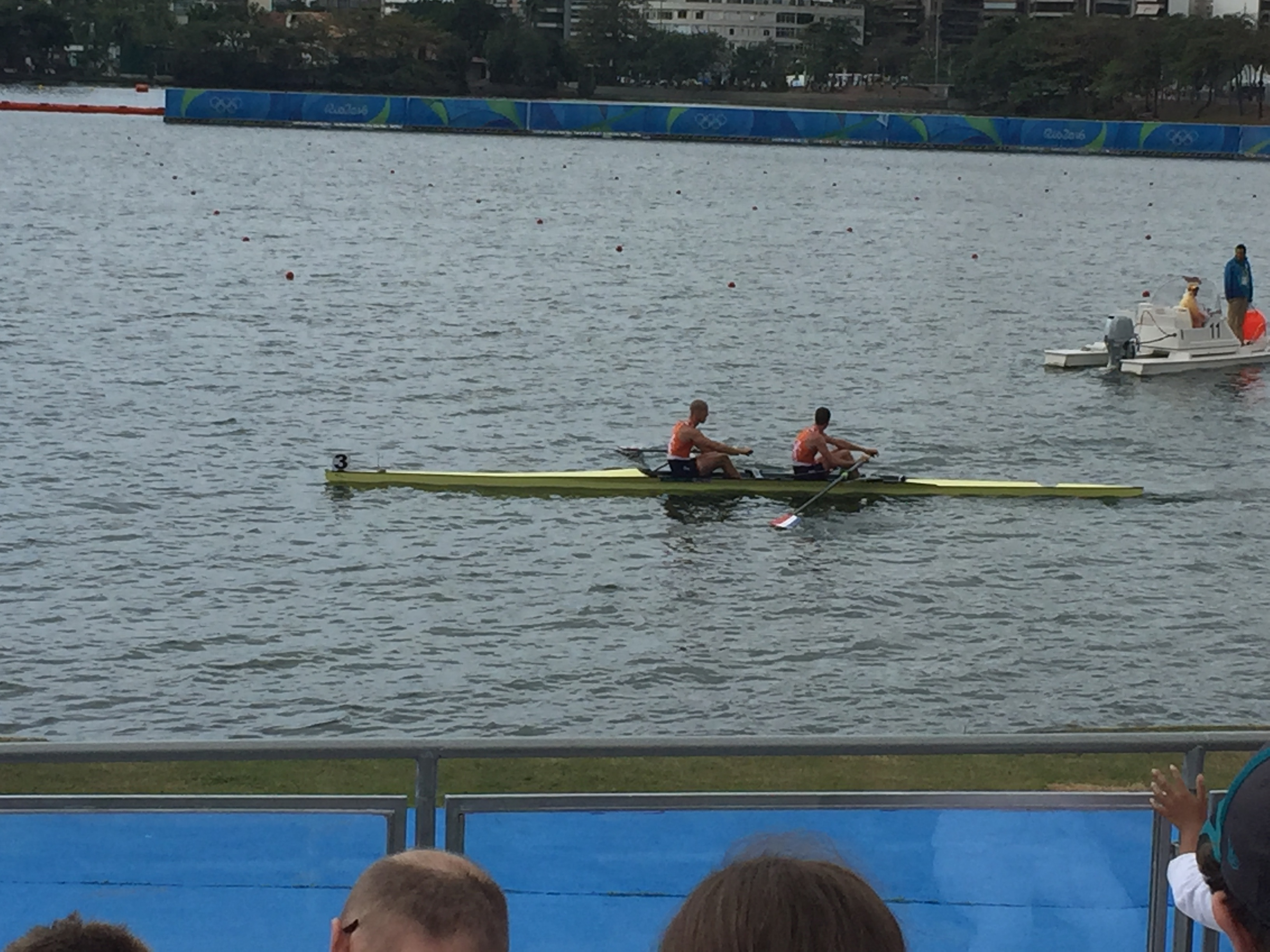 Rio 2016 Olympics - Rowing 8 August